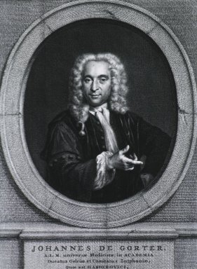 Johannes de Gorter J.M. Quinkhard. pinxit, Janssonii Sander Aa excudunt J. Houbraken sculpsit.